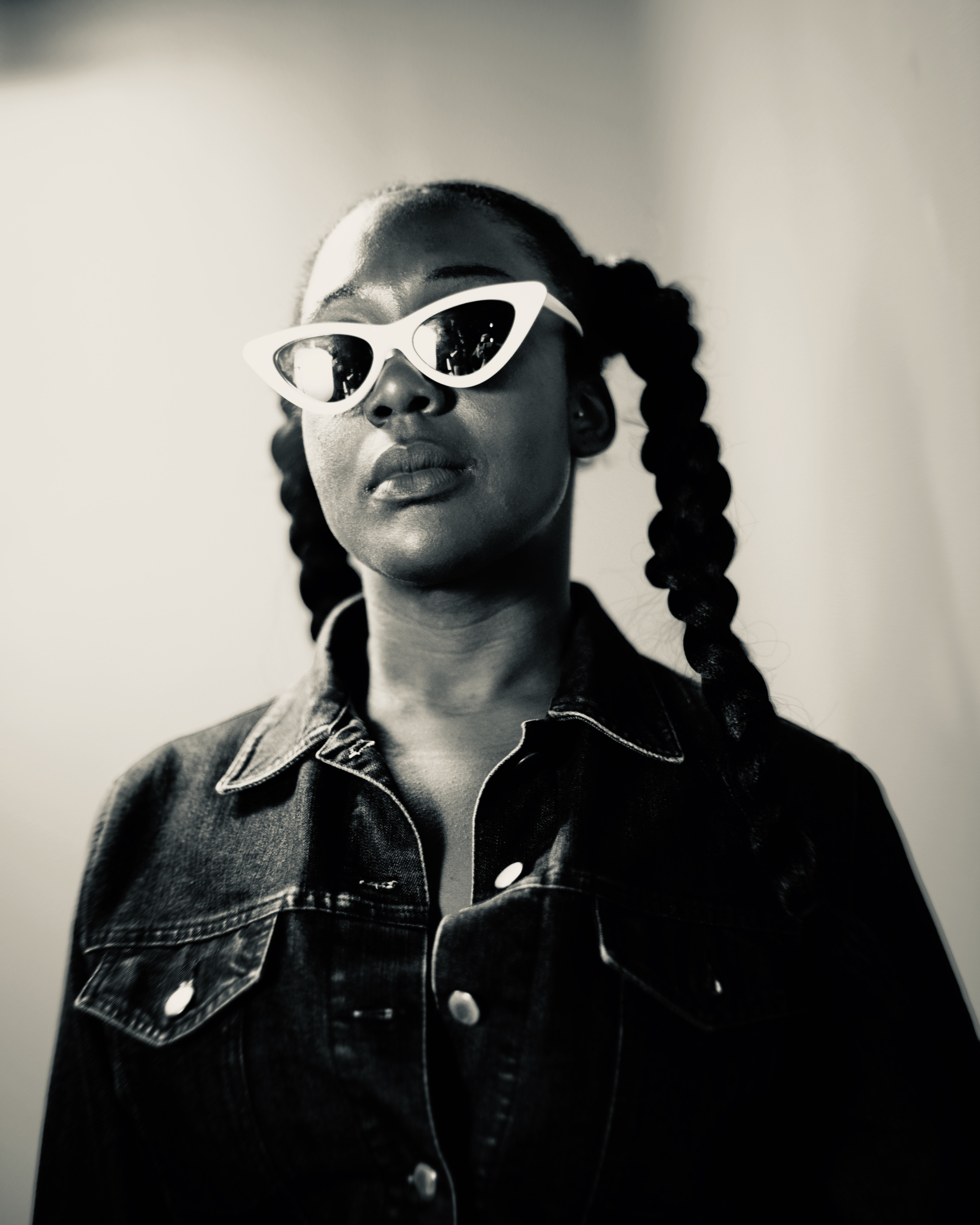 This is a photo that I took of the songwriter Anita Blay